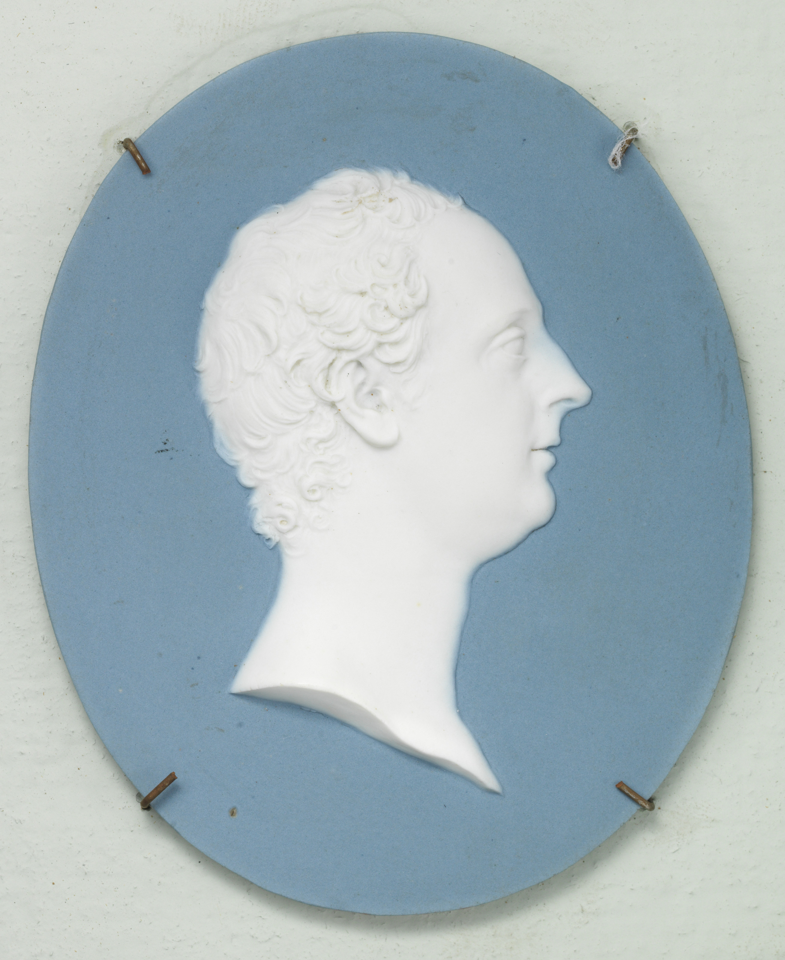 Ceramics-Pottery; Medallion